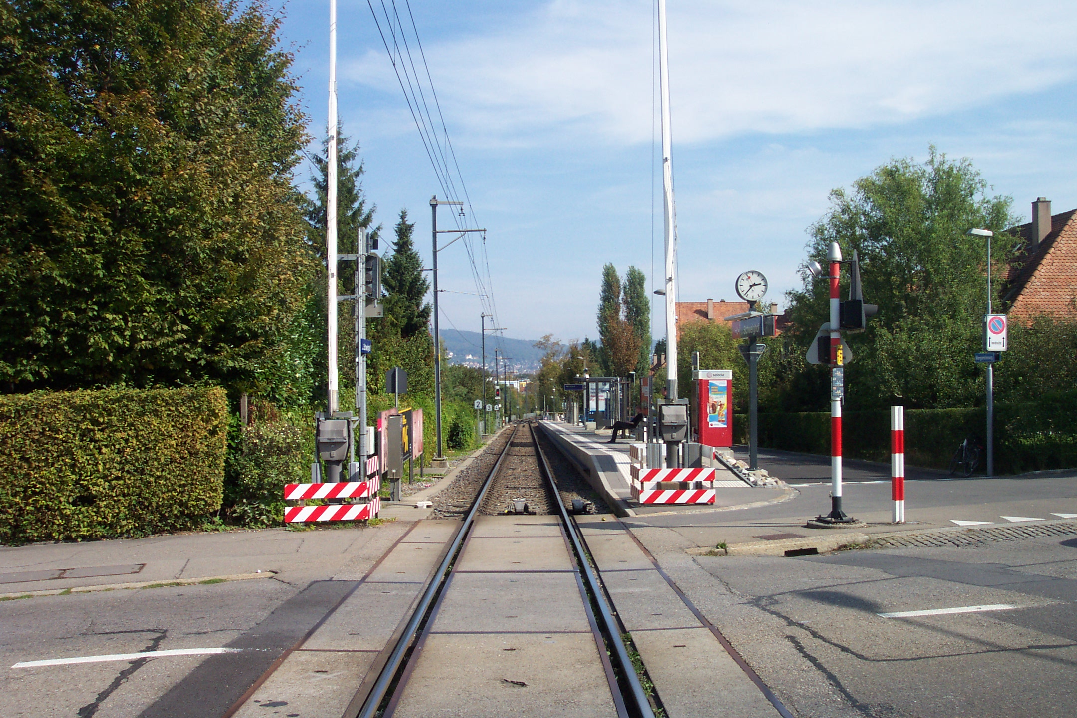 Zurich Schweighof railway station, looking downhill to the station's single track and platform. For more information, please see Wikipedia article Zurich Schweighof railway station.